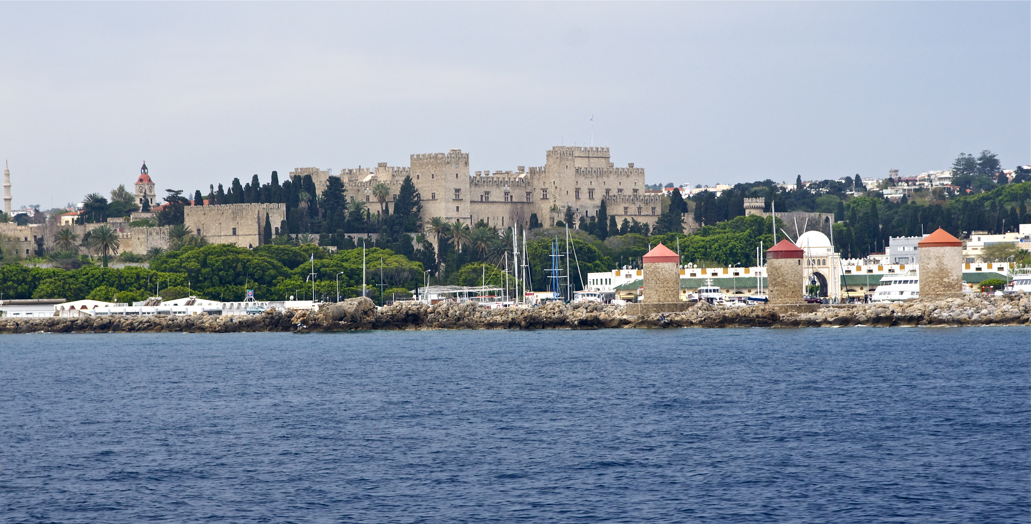 View from the sea of the palace of the Grand-Master of the knights of Rhodes, Rhodes city, Greece.